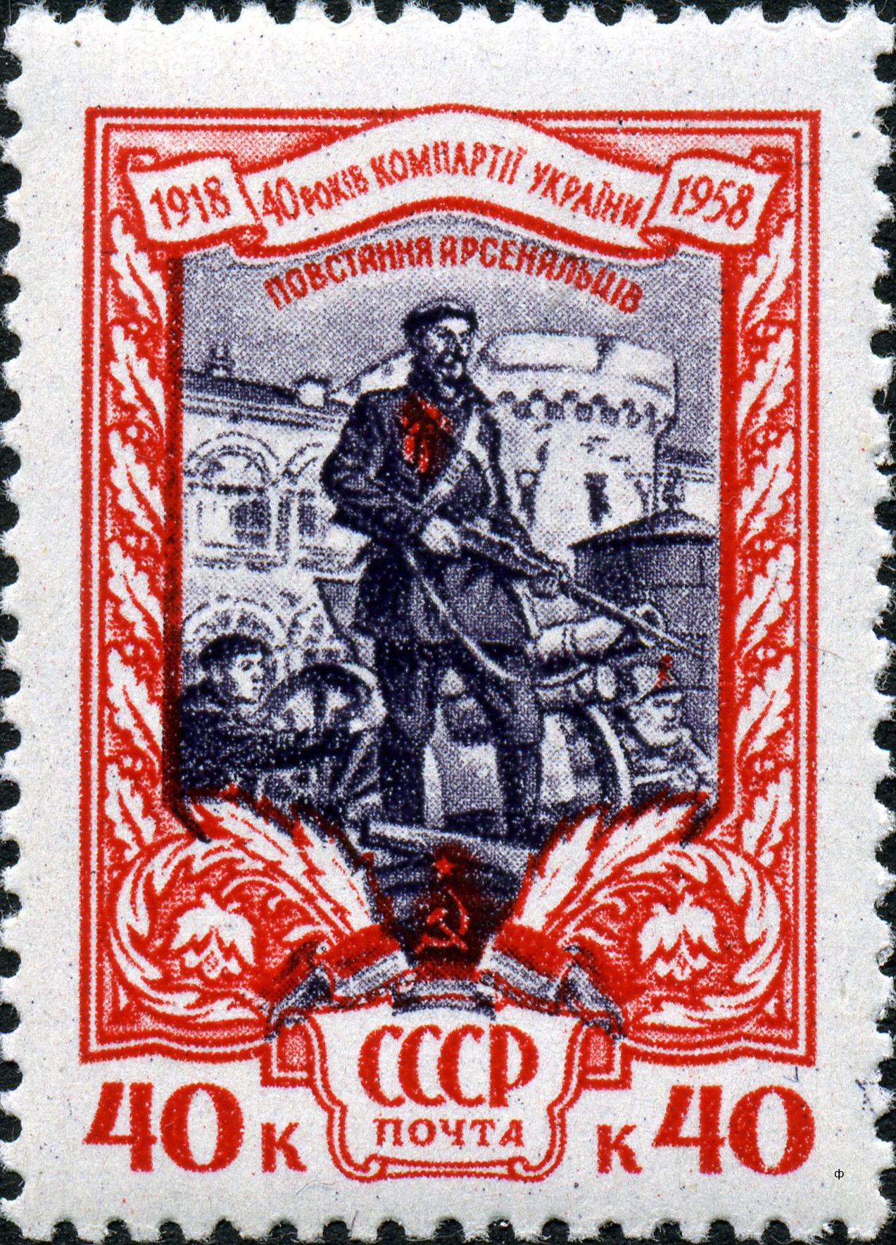 Soviet Union stamp, 40th anniversary of the Communist Party of Ukraine, An episode of the insurgence of Arsenal Plant workers against the Petlura's Central Rada (29.01.-04.02.1918), 1958, 40 kop., canceled, CPA 2172.